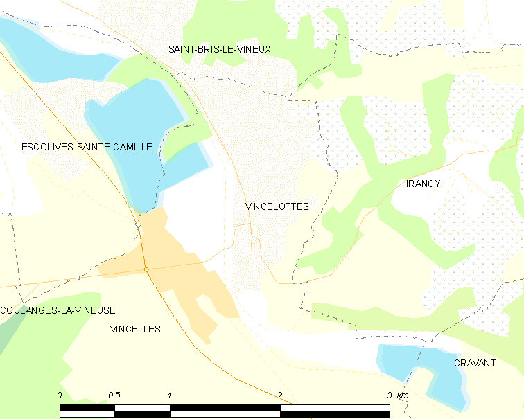 Map of French municipality Vincelottes